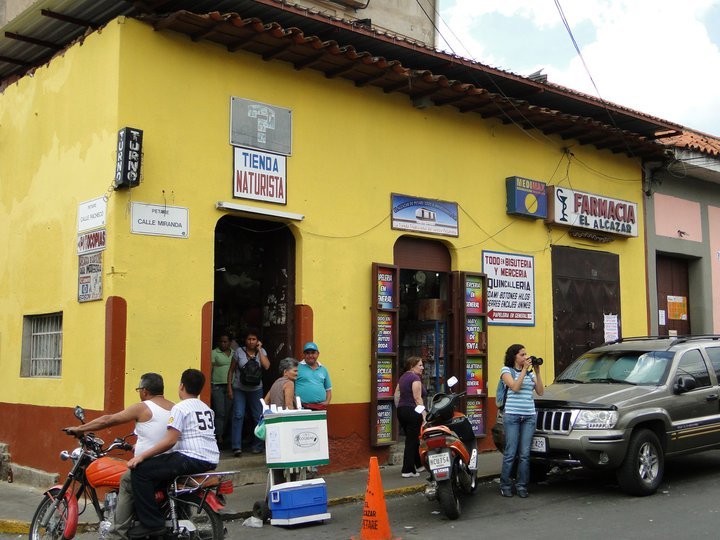 Comercio_Petare.jpg